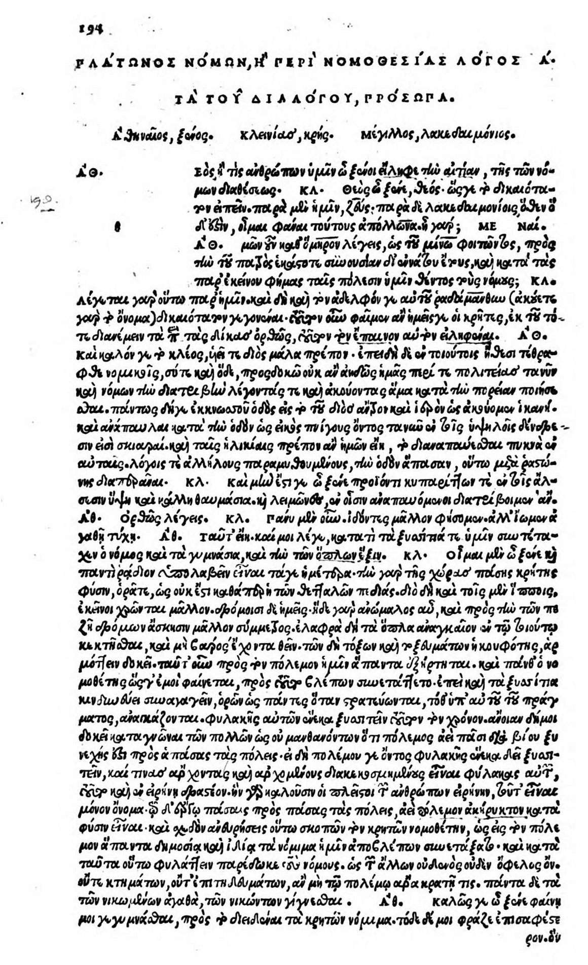 Nomoi I beginning. Editio princeps, Venice 1513.